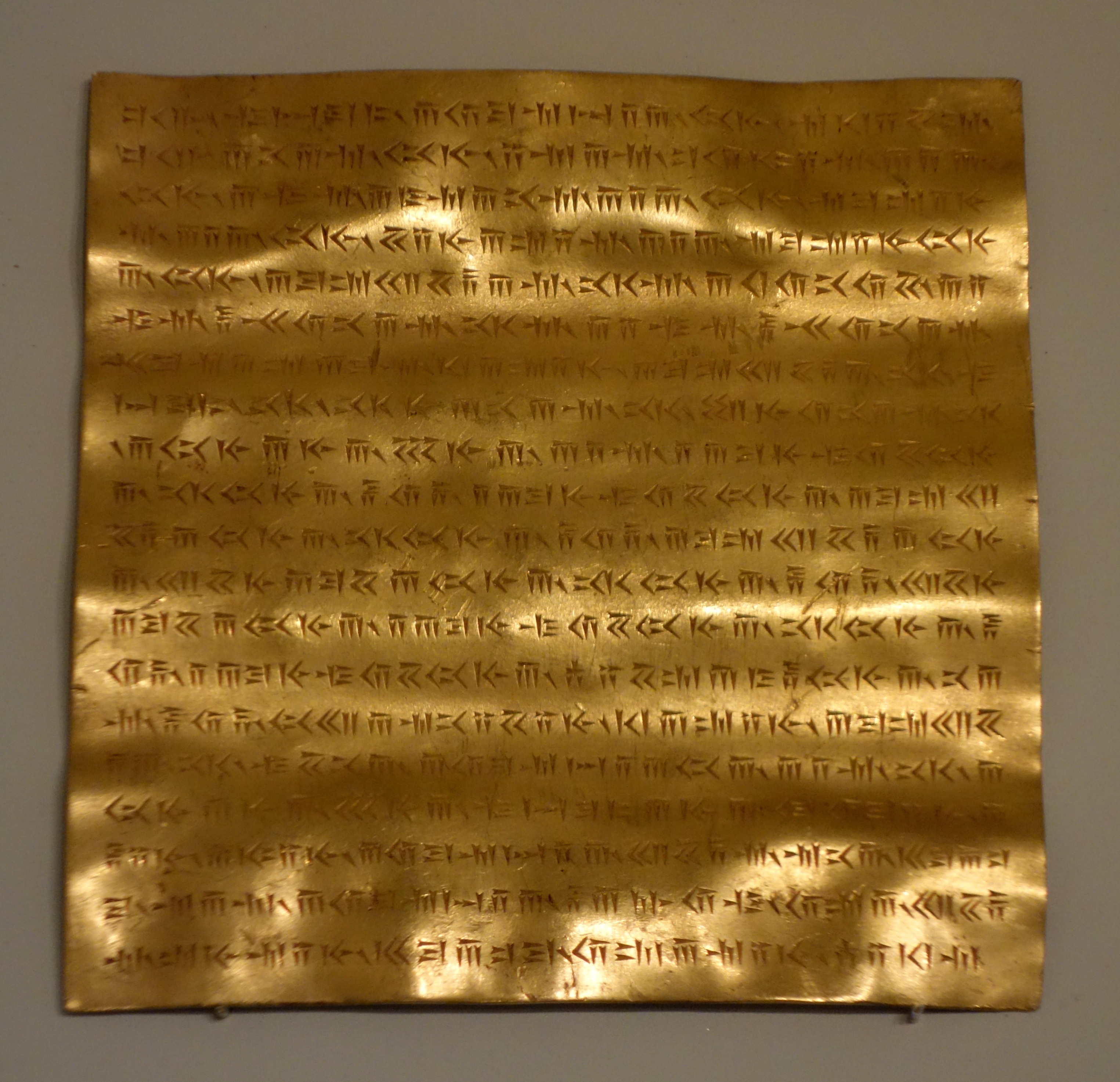 Foundation plaque A inscribed in Old Persian, Iran, Achaemenid period, early 4th century BC, hammered gold